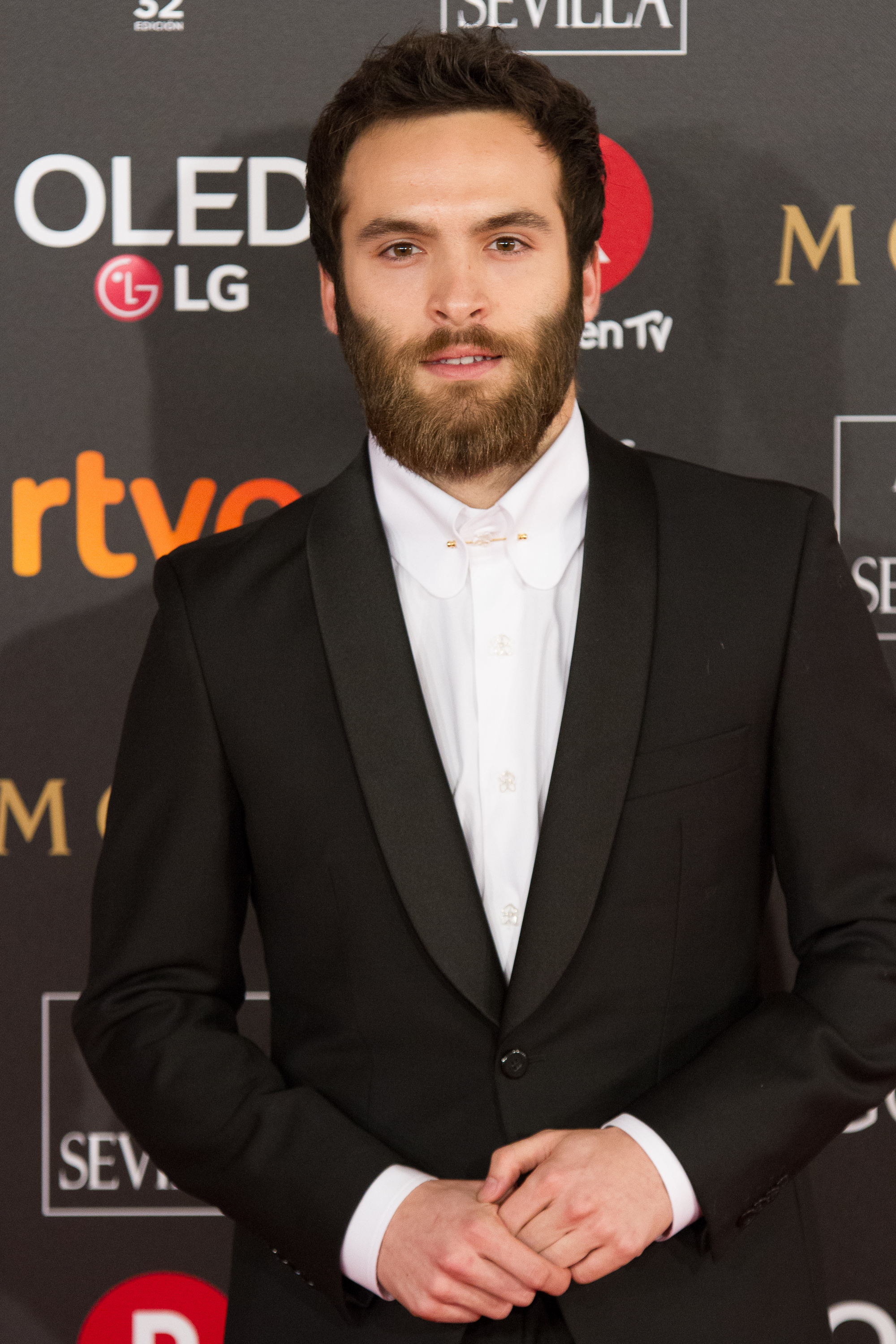 32nd Goya Awards, 2018.